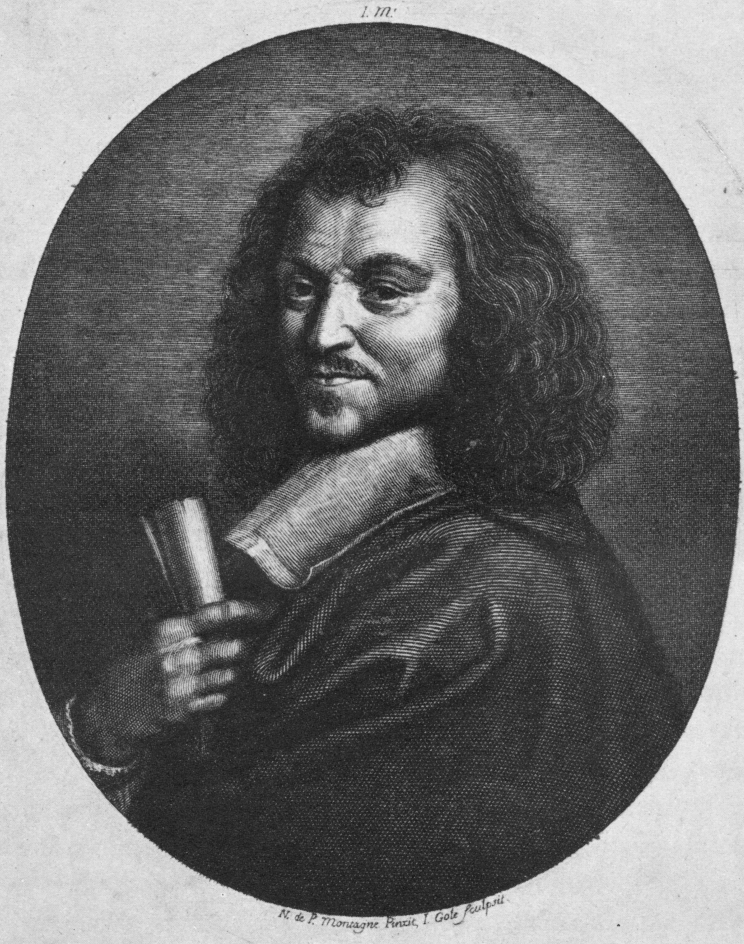 Portrait of the French engraver Jean Marot (1619–1679)